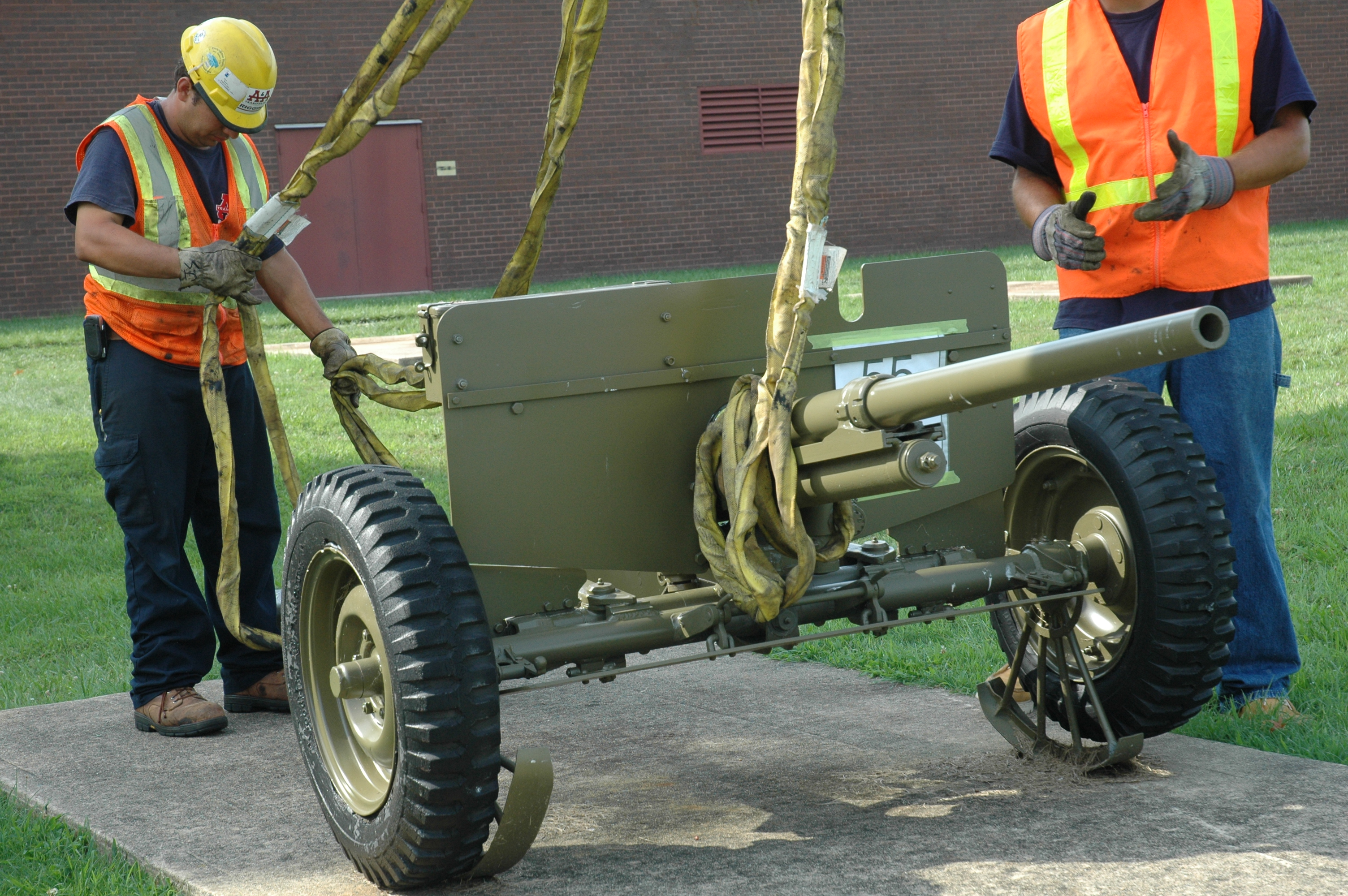 (September 17, 2009) — Sixty ordnance treasures made the 200-mile trip down treacherous Interstate 95 to Fort Lee, Va., during Phase 1 of the Ordnance Museum relocation Aug. 3 to 7. Powering the historical move were drivers from the Meadow Lark Transportation Company and crane operators and riggers from A&A Transfer Inc. out of Virginia. Read more...